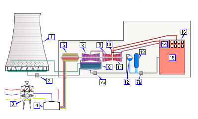 Generalized diagram of a Steam-driven Electric Power Plant, a type of thermal power plant